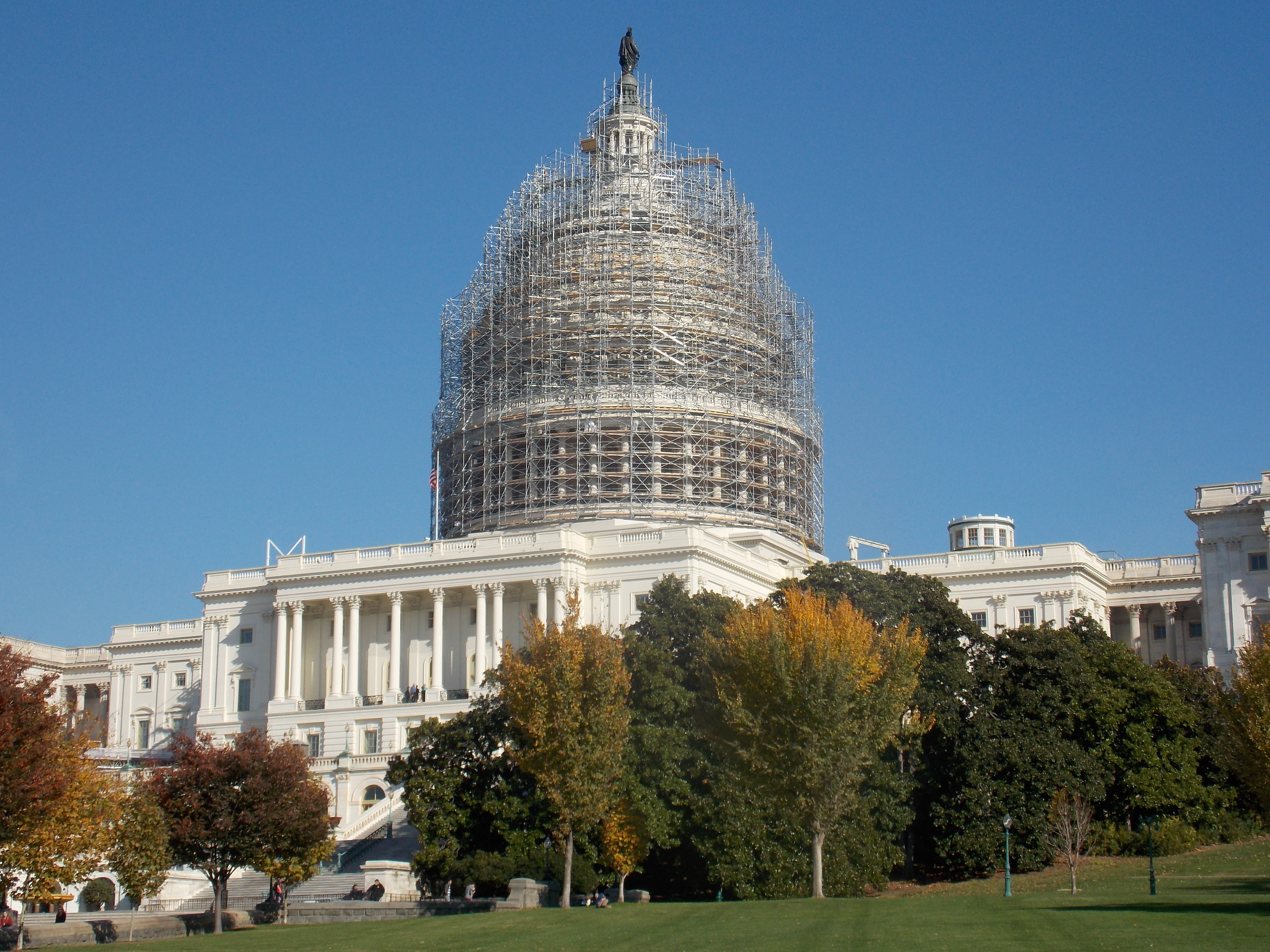 Scaffolding is being put in place around the dome of the United States Capitol in preparation for restoration work.